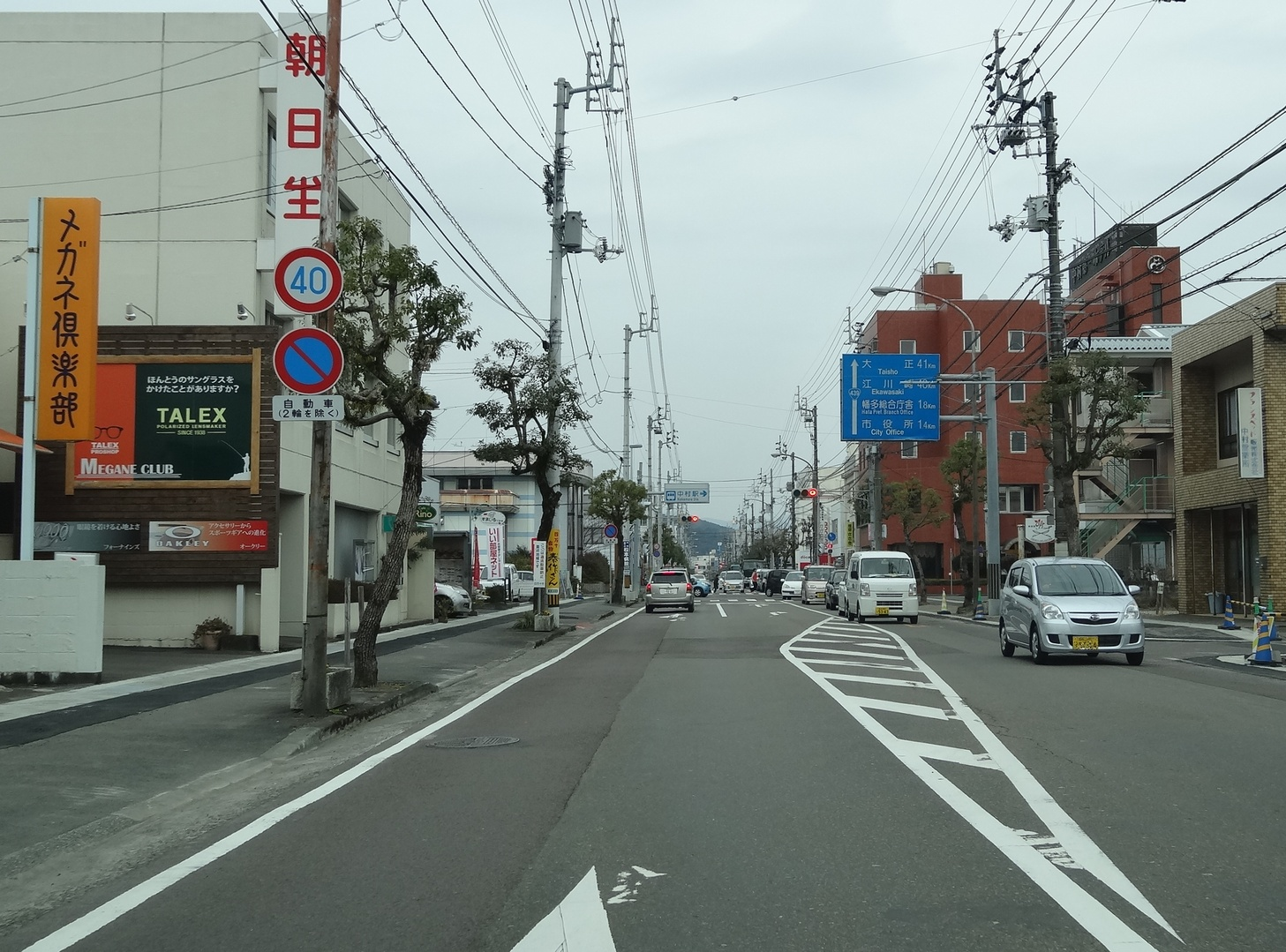 National Route 439 in Central Shimanto City, Kochi Prefecture, Japan.